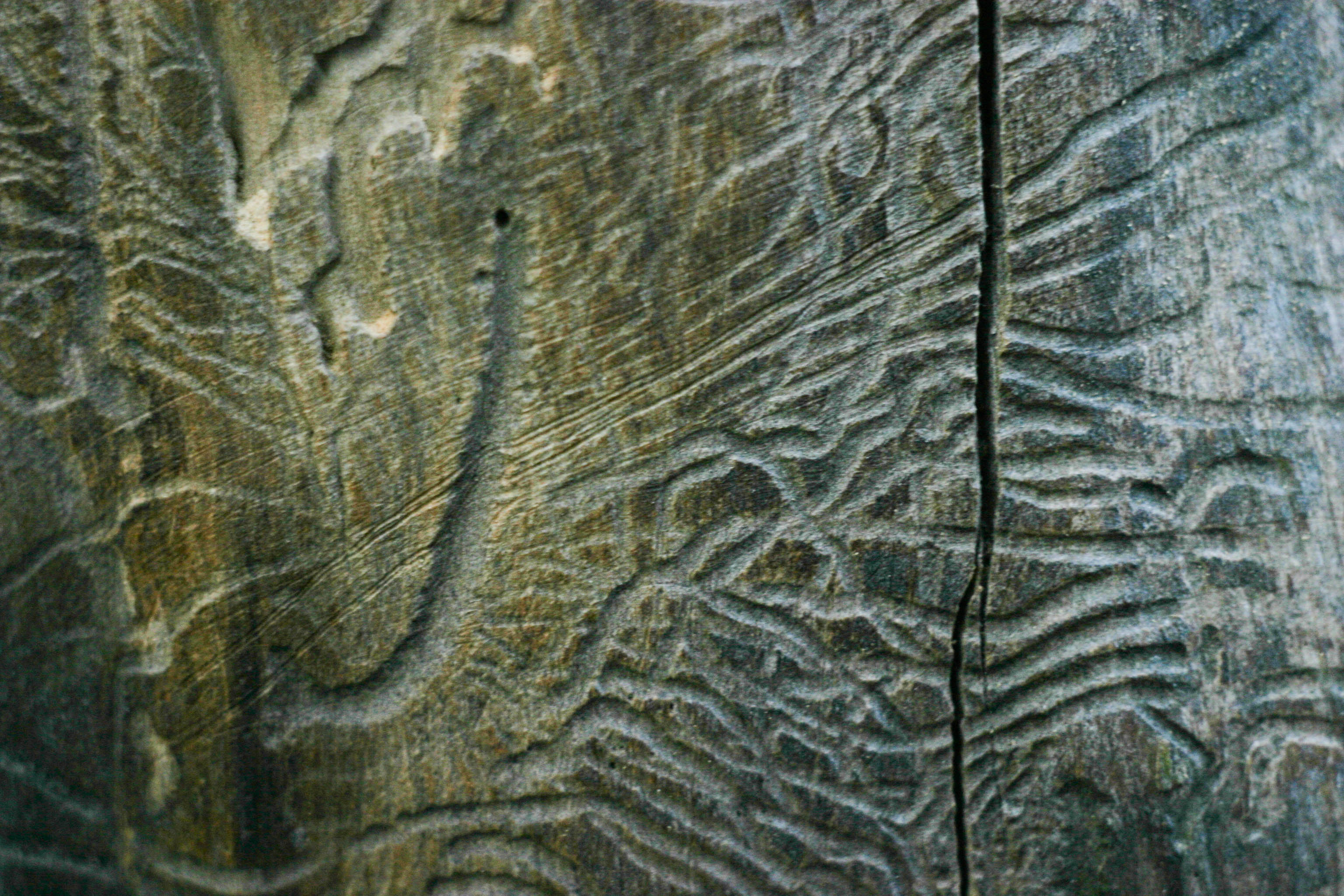 The trunk of the tree (apple), drawing made by bark beetles